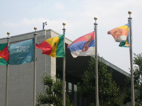 Flags of São Tomé and Príncipe, Saudi Arabia, Senegal, Serbia and the Seychelles before the building of the United Nations